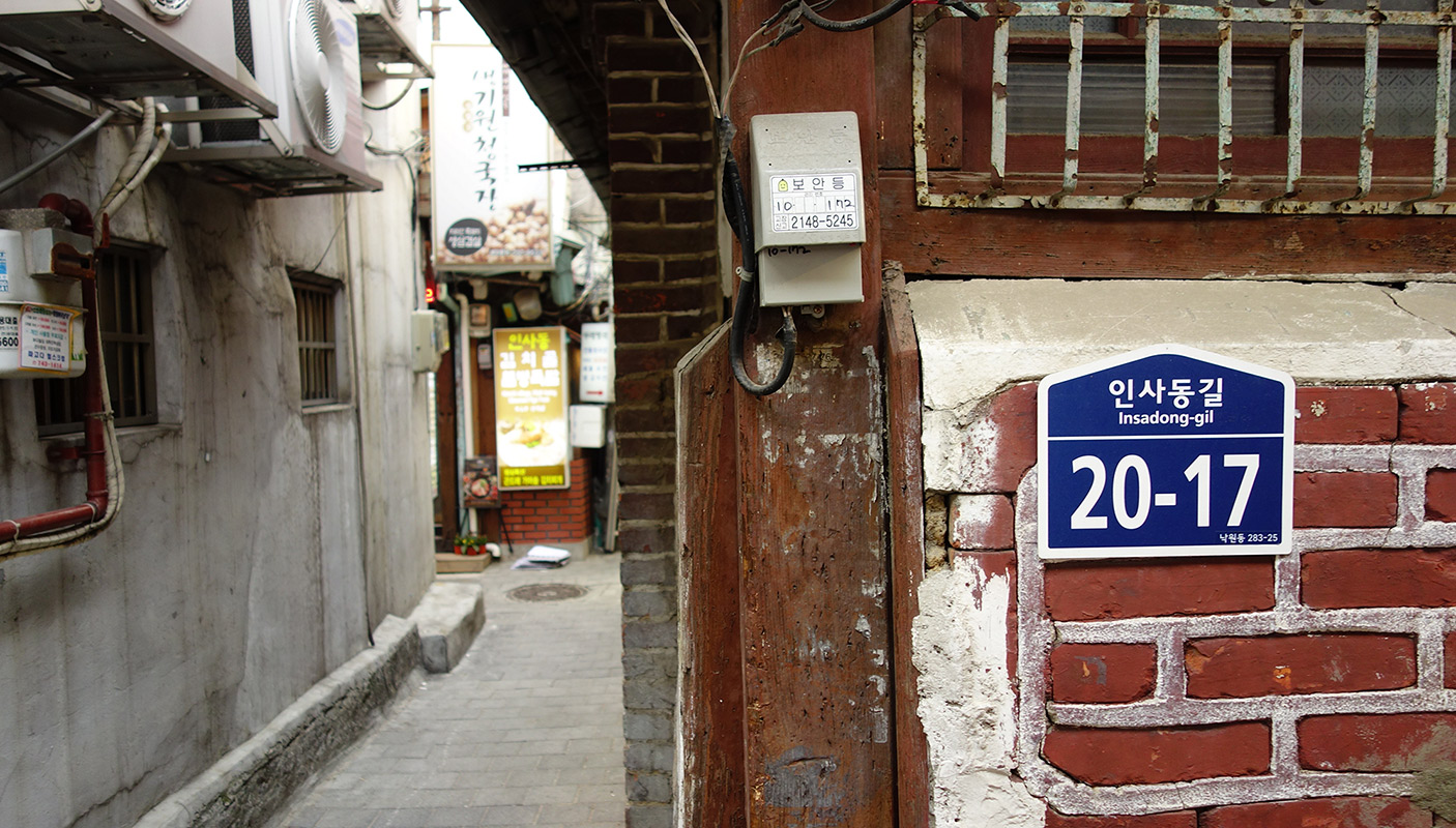 A back alley in historic Insadong, Seoul, South Korea